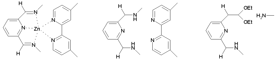 Borromean ring components